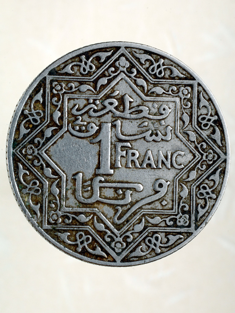 Coin « empire chérifien »(former french colony now Morocco) 1 franc